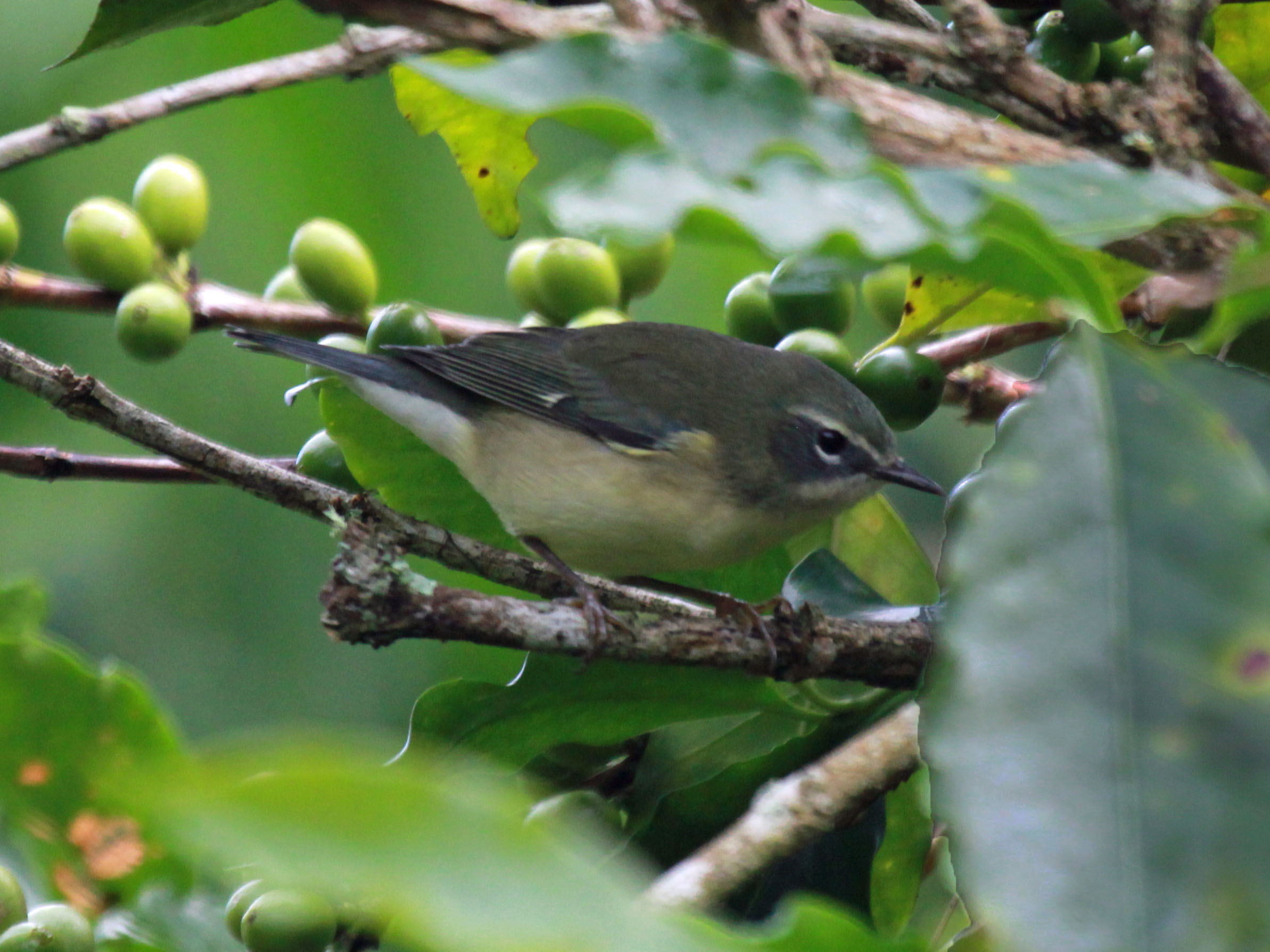 Female Black-throated Blue Warbler (Dendroica caerulescens) - Jamaica